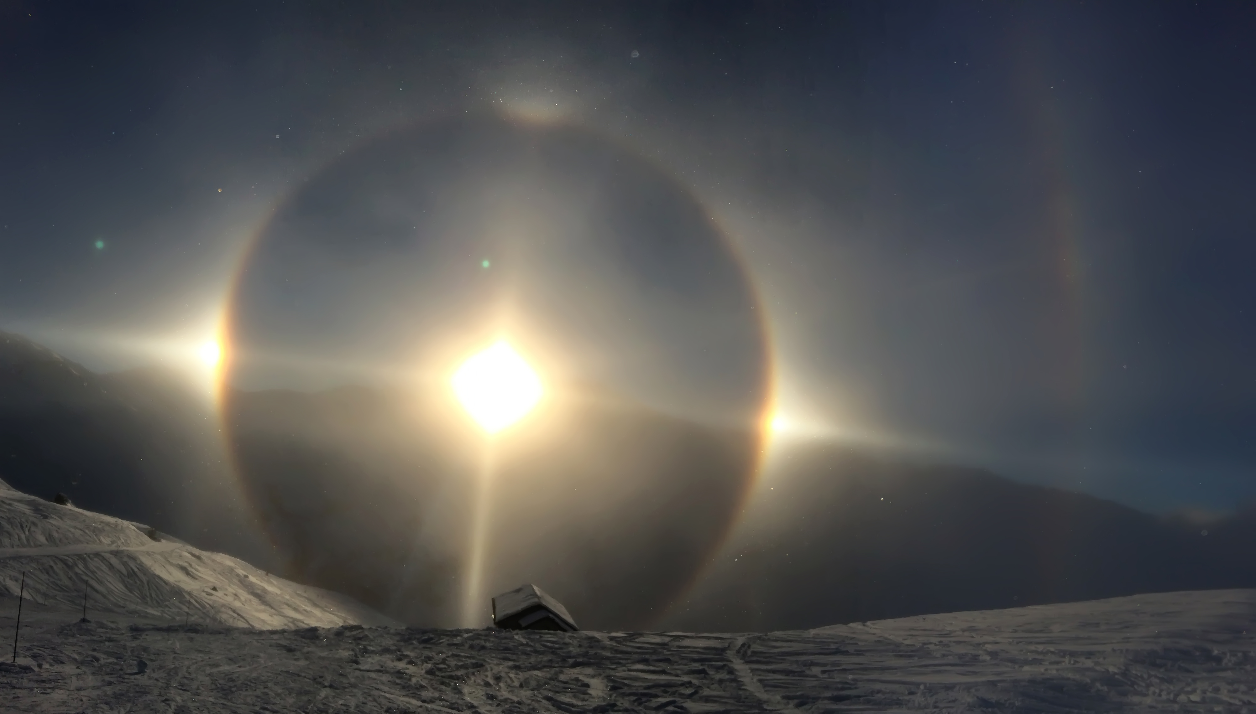 Phantom suns (parhelia) observed in Les Ménuires (elevation ~2200 metres), Rhone-Alpes, France on January 23, 2015 during sunset at 16:30